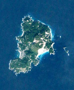 Landsat picture of Kozushima Island, Izu Islands, Japan.